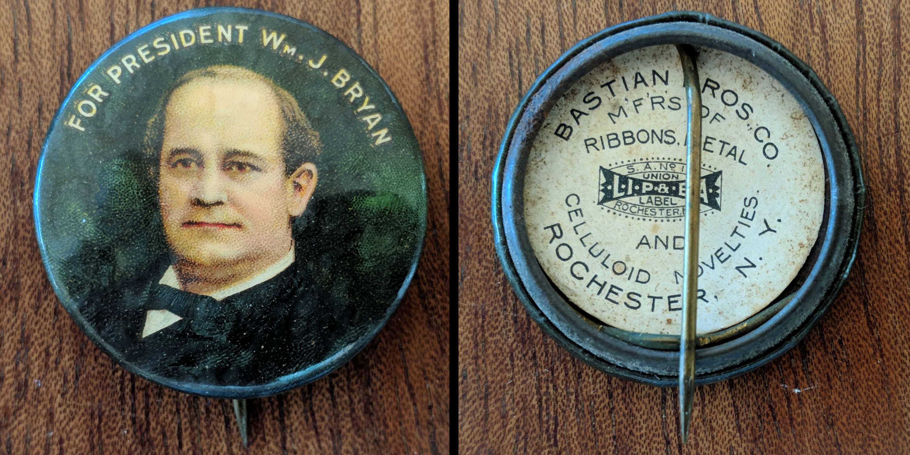 A presidential campaign button for William Jennings Bryan made by Bastian Bros. Co. of Rochester, N.Y.